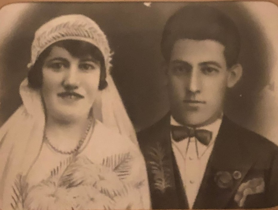 Parents of Petar Pajic, Serbian poet and prose writer. Српски (ћирилица): Родитељи Петра Пајића, српског песника и прозног писца.